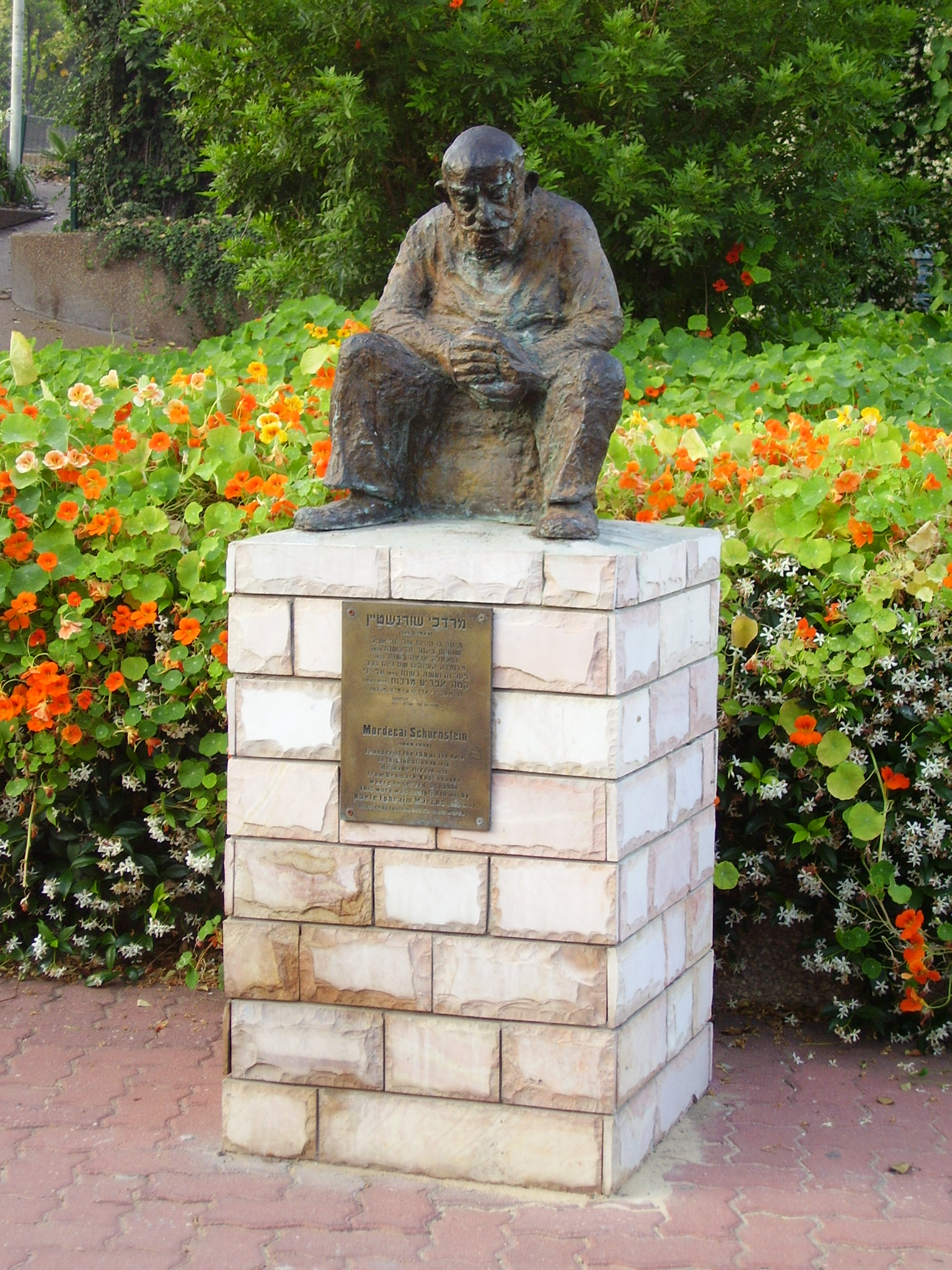 The sculpture of Rabbi Mordecai Schornstein, founder of the Tel Aviv zoo, Israel (sculptor: Kaete Ephraim Marcus)